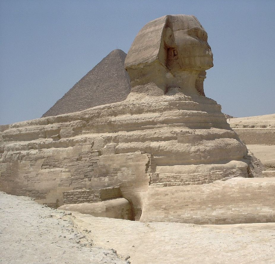 The Sphinx at Giza is one of Ancient Egypt's most famous works